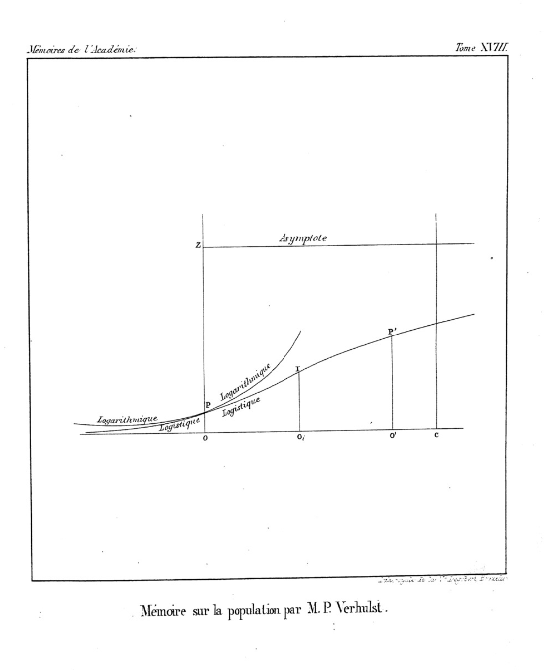 Figure introducing the logistic curve, and contrasting it with the "logarithmic curve" (in modern terms, exponential curve), as a model of population growth. Verhulst, Pierre-François